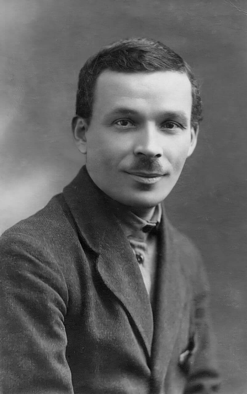 Mykola Kulish portrait. Photo, 1920s